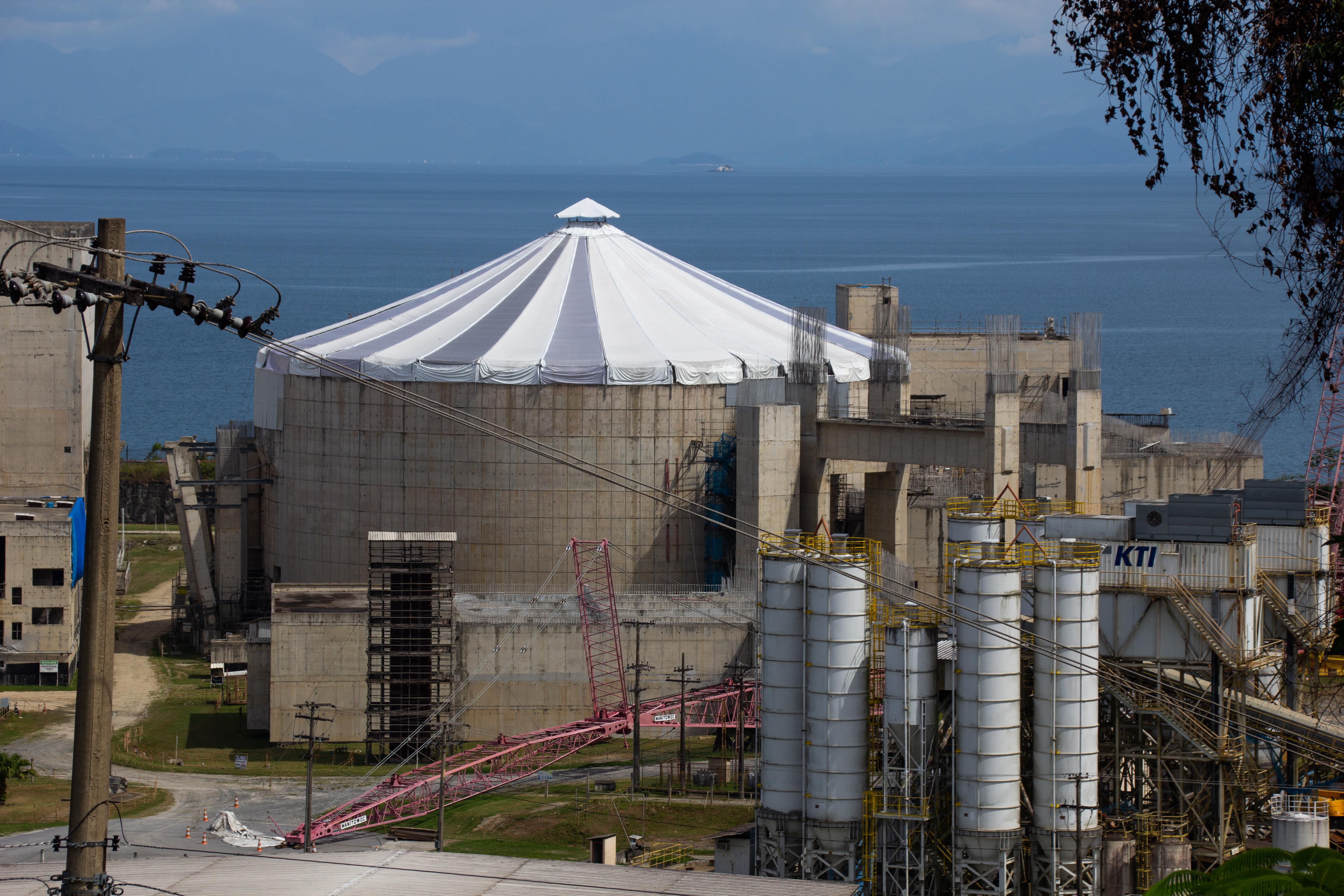 Around Paraty and area, Brazil